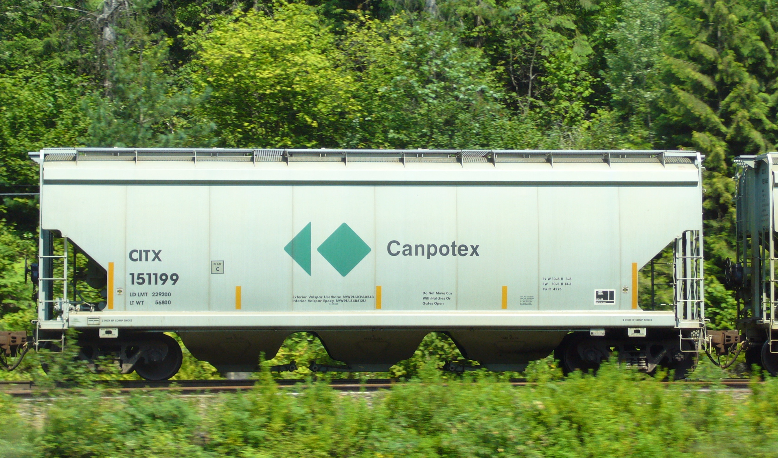 A Canpotex train heading west to Vancouver, near Taft, British Columbia